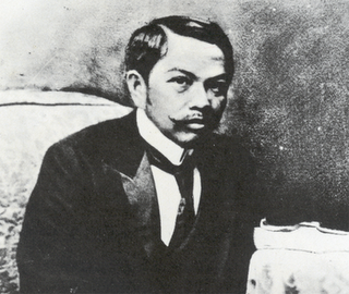 Juan Luna circa 1899 (photo courtesy of Lopez Museum & Library)